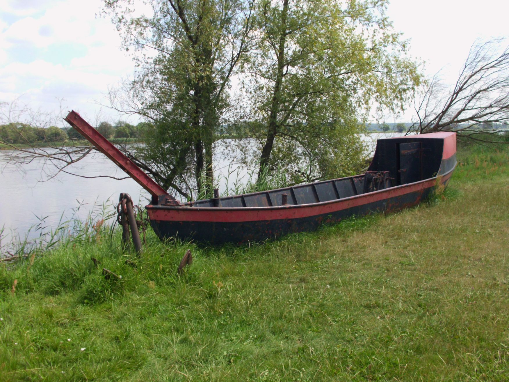 Old hand rope ferry from Zollbrücke